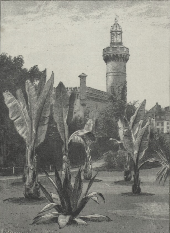 Carlsbergs Udstillingsbygning på Rådhuspladsen, 1888